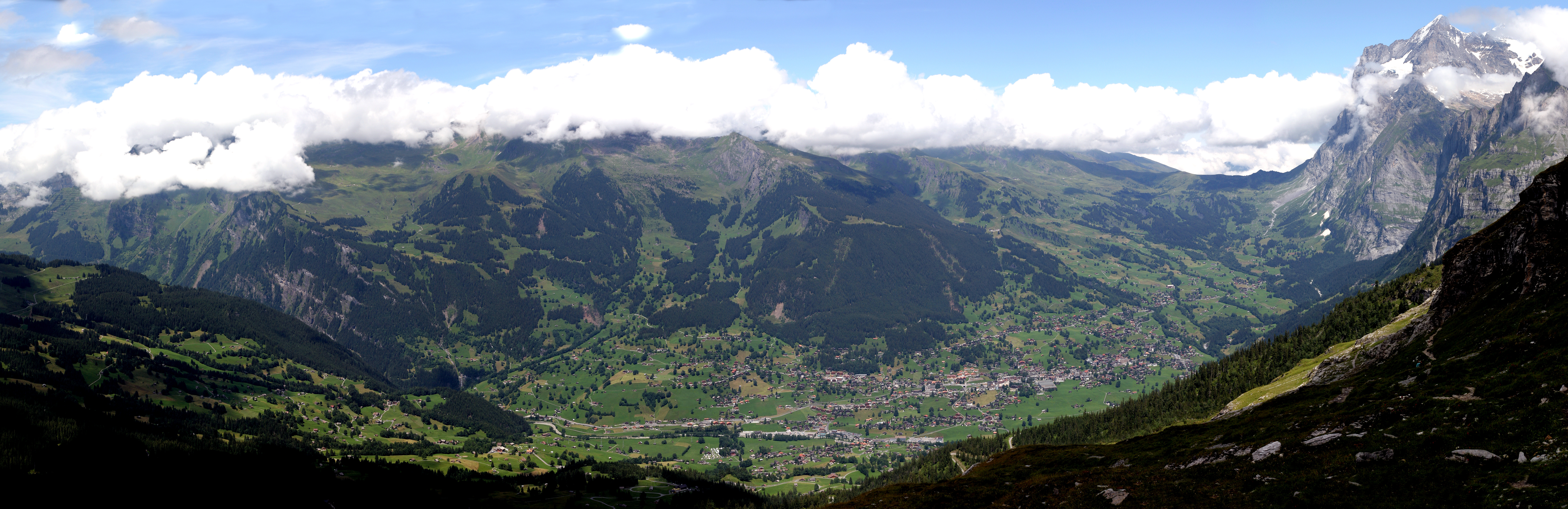 The municipality of Grindelwald.